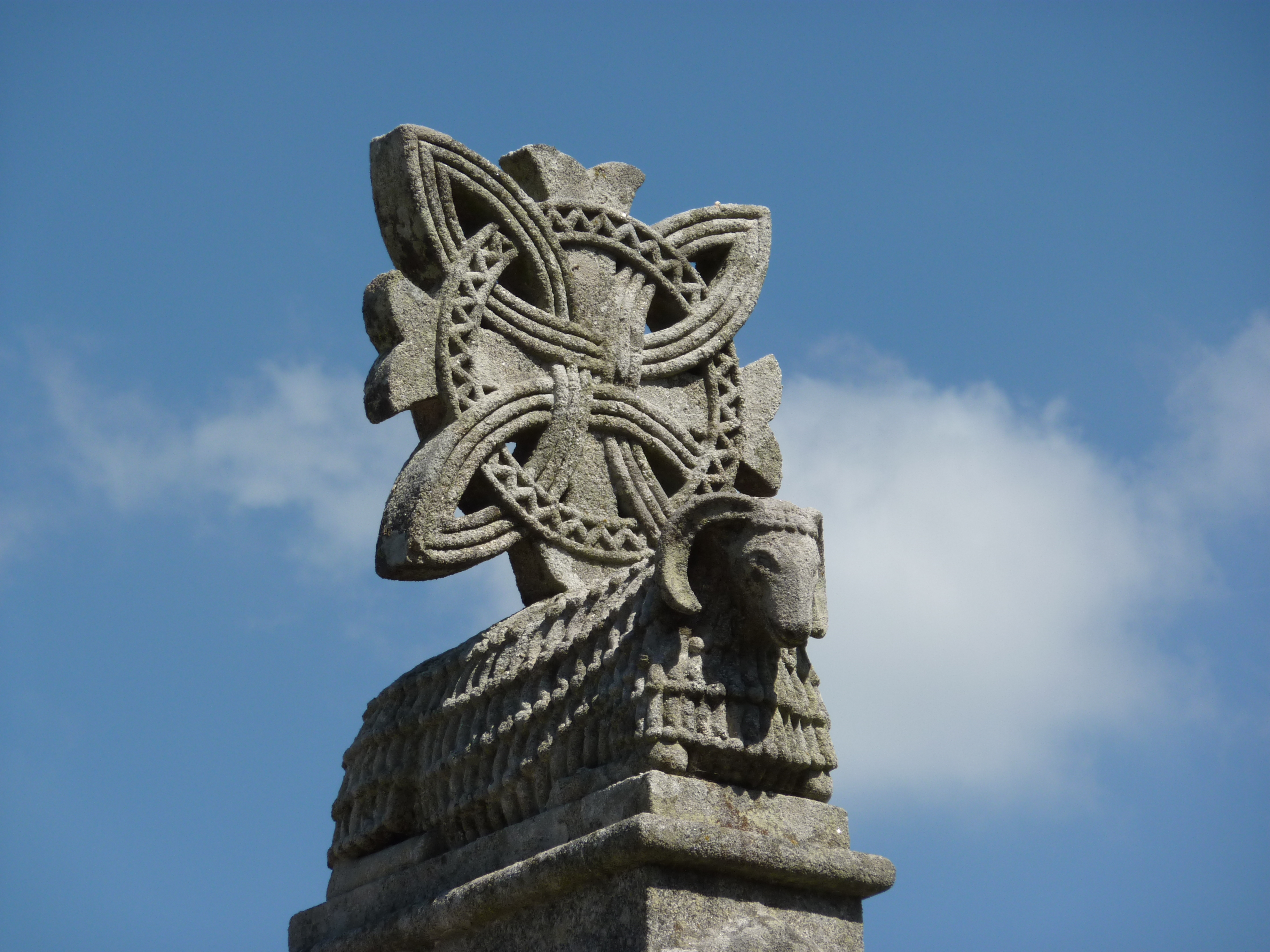 Agnus Dei, Tállara, Lousame, Galicia, a probable copy from the church of Saint Salome, in Santiago.